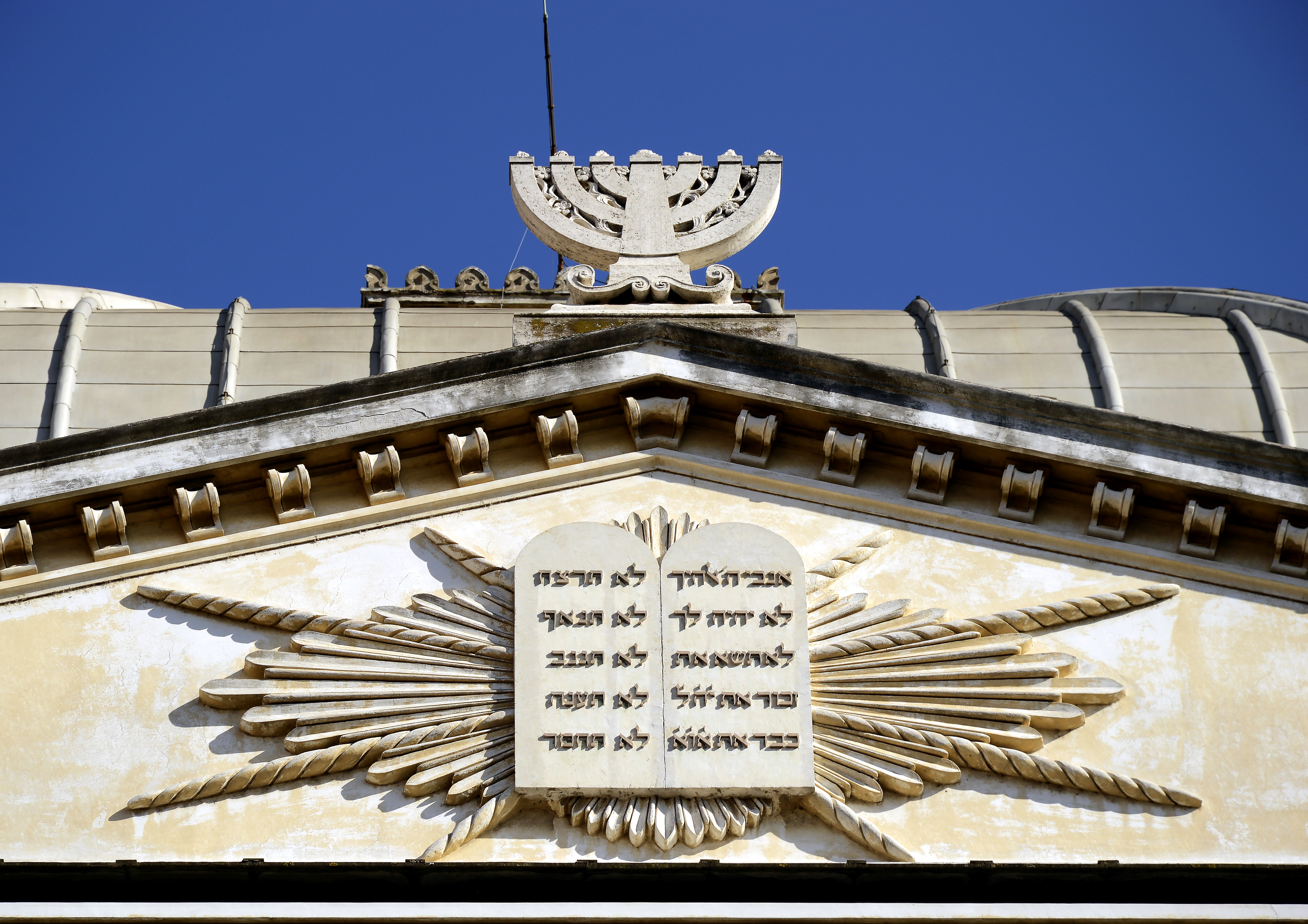 Menorah and Tables of the Law on Great Synagogue (Rome)